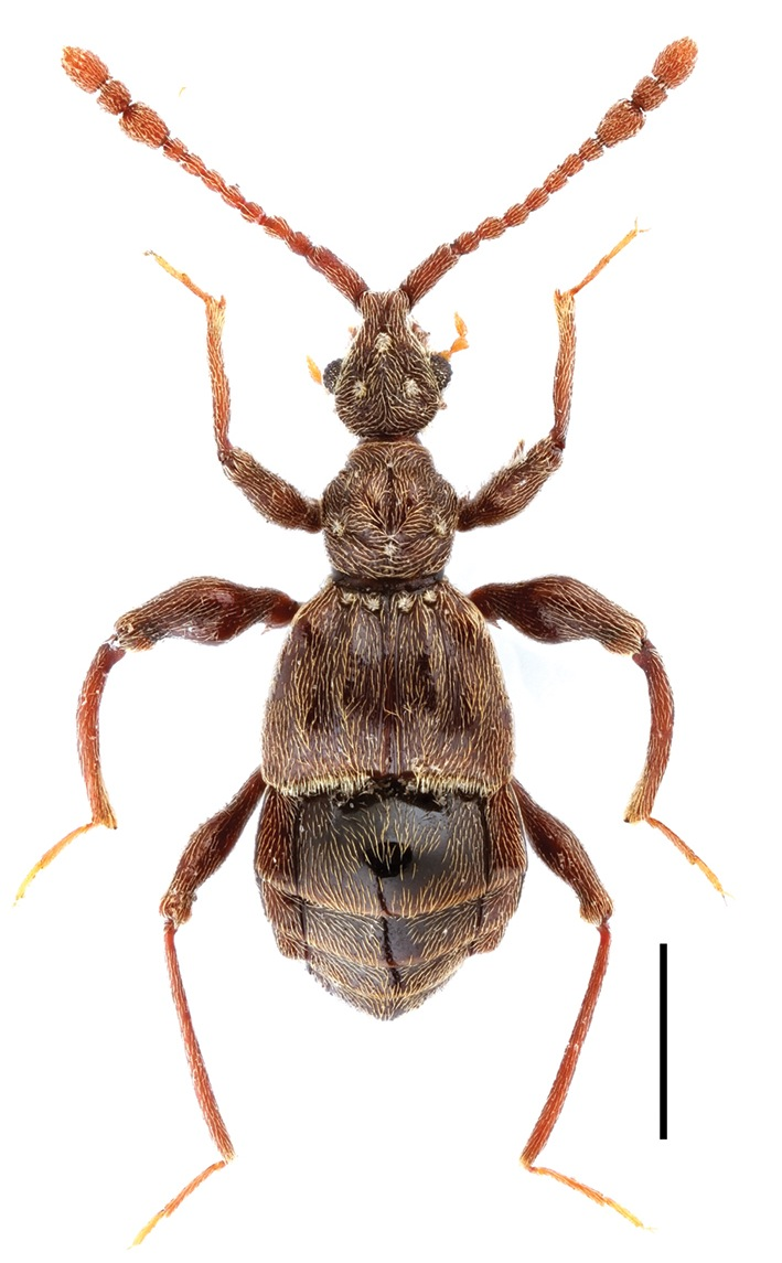 Male habitus of Labomimus paratorus. Scale: 1.0 mm.